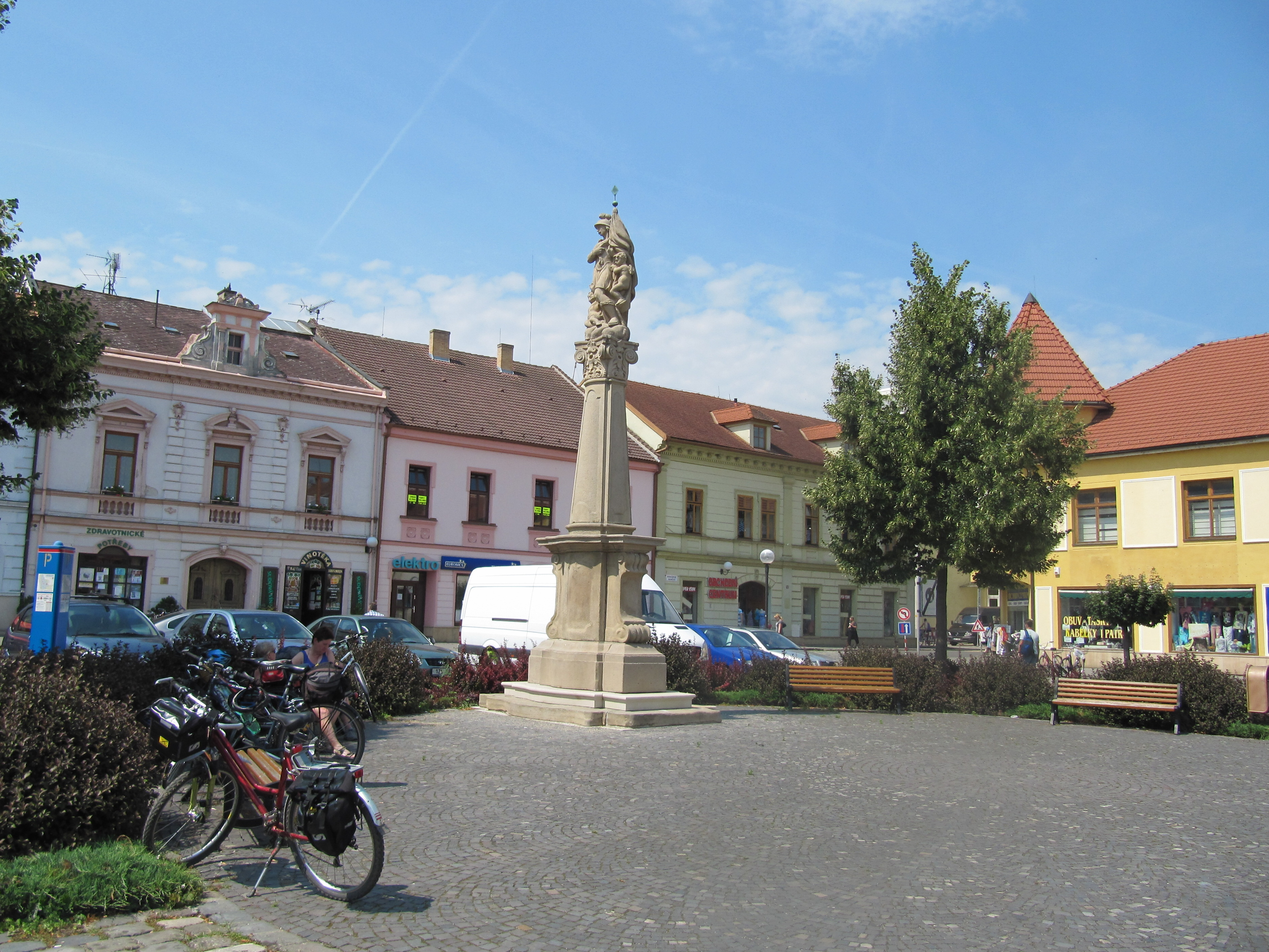 Uherské Hradiště, Czech Republic. Square Mariánské náměstí, statue of St. Florian.